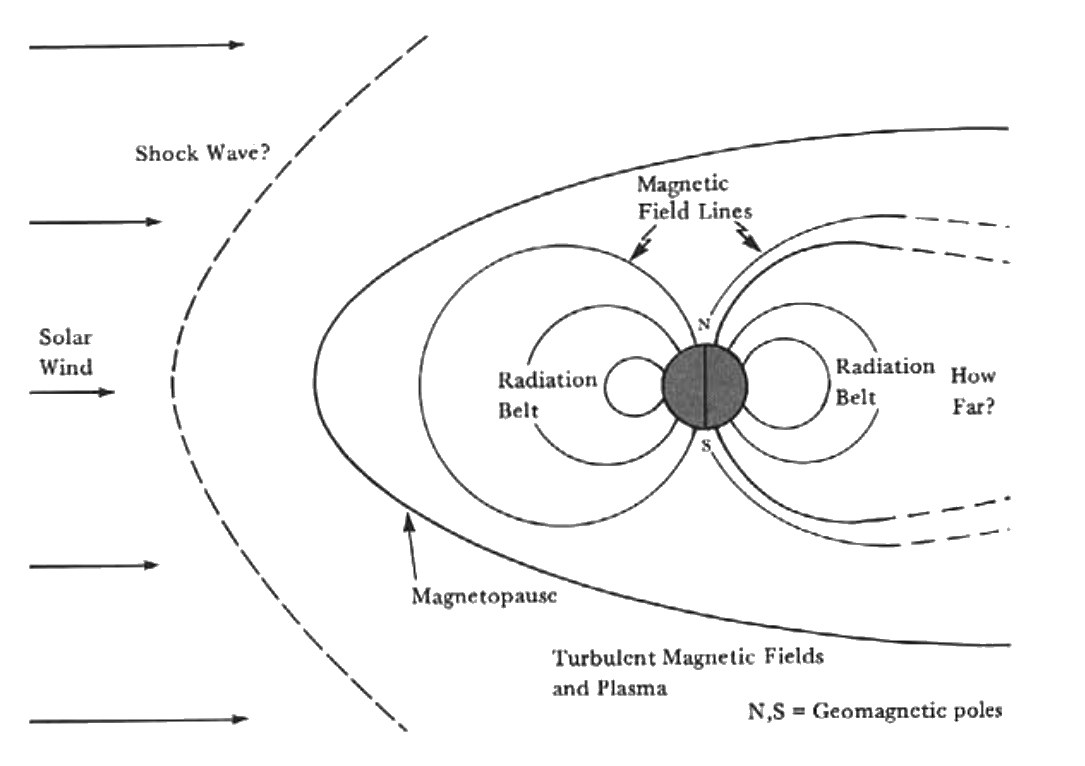 The-magnetosphere-as-visualized-early-in-1962